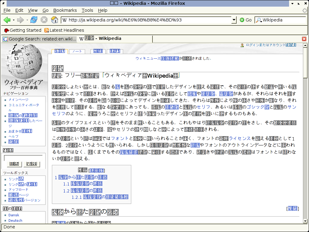 A screenshot showing the display of a webpage on a computer which has incomplete support for Japanese text. Taken using KSnapshot.